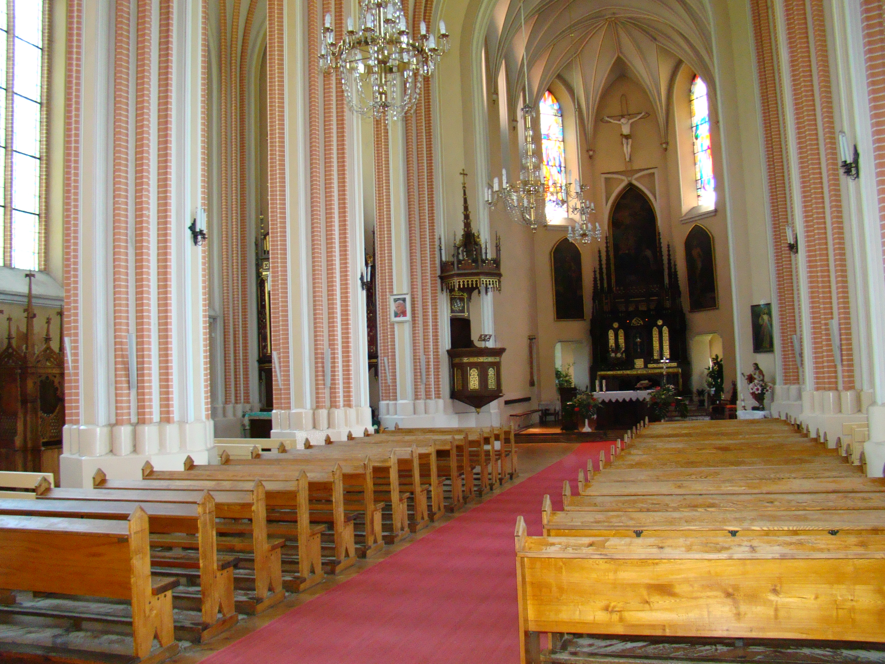 Saint Mary's Scapular church in Druskininkai, Lithuania